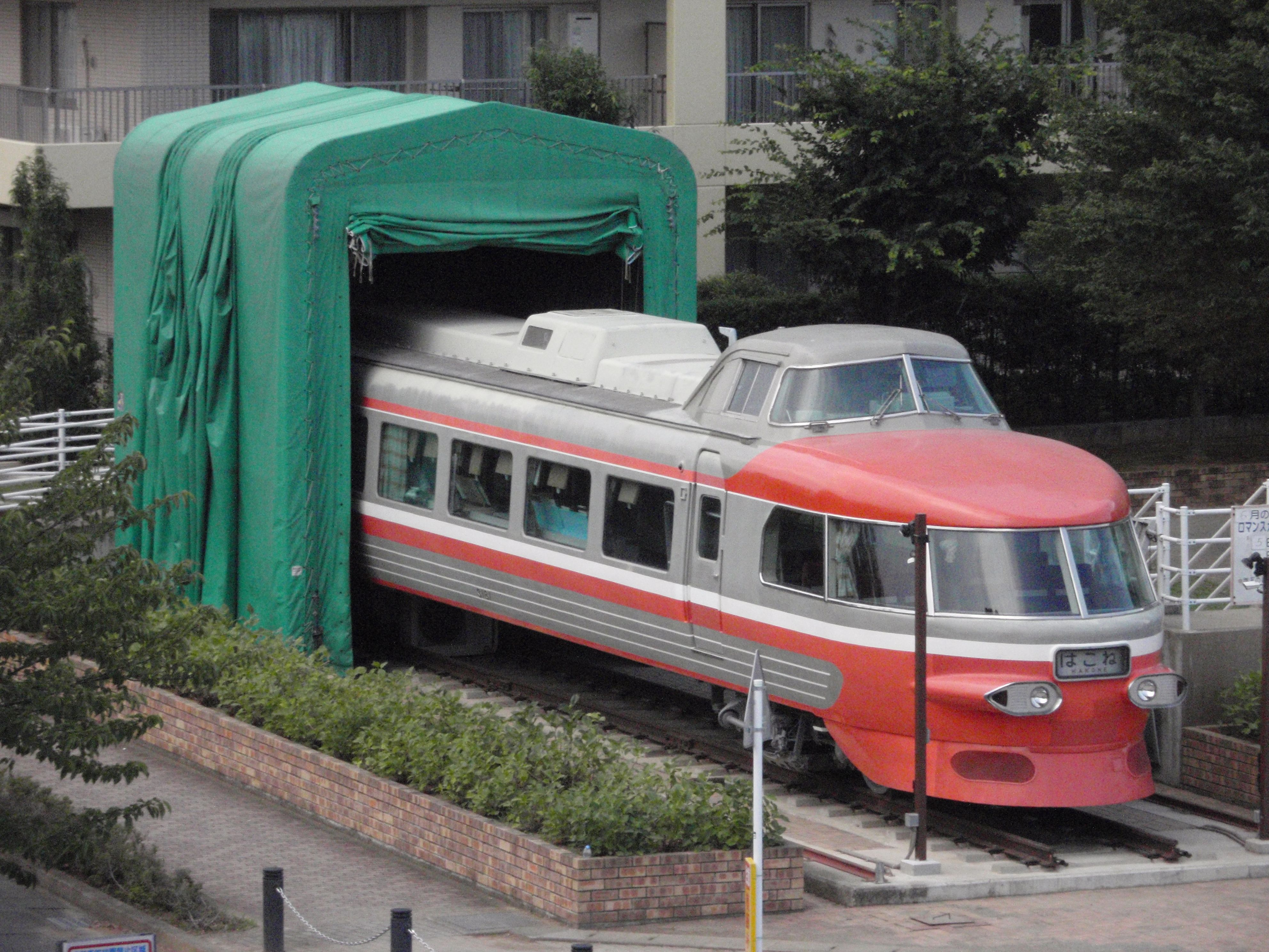 Odakyu Elecrtic Railway type 3100.